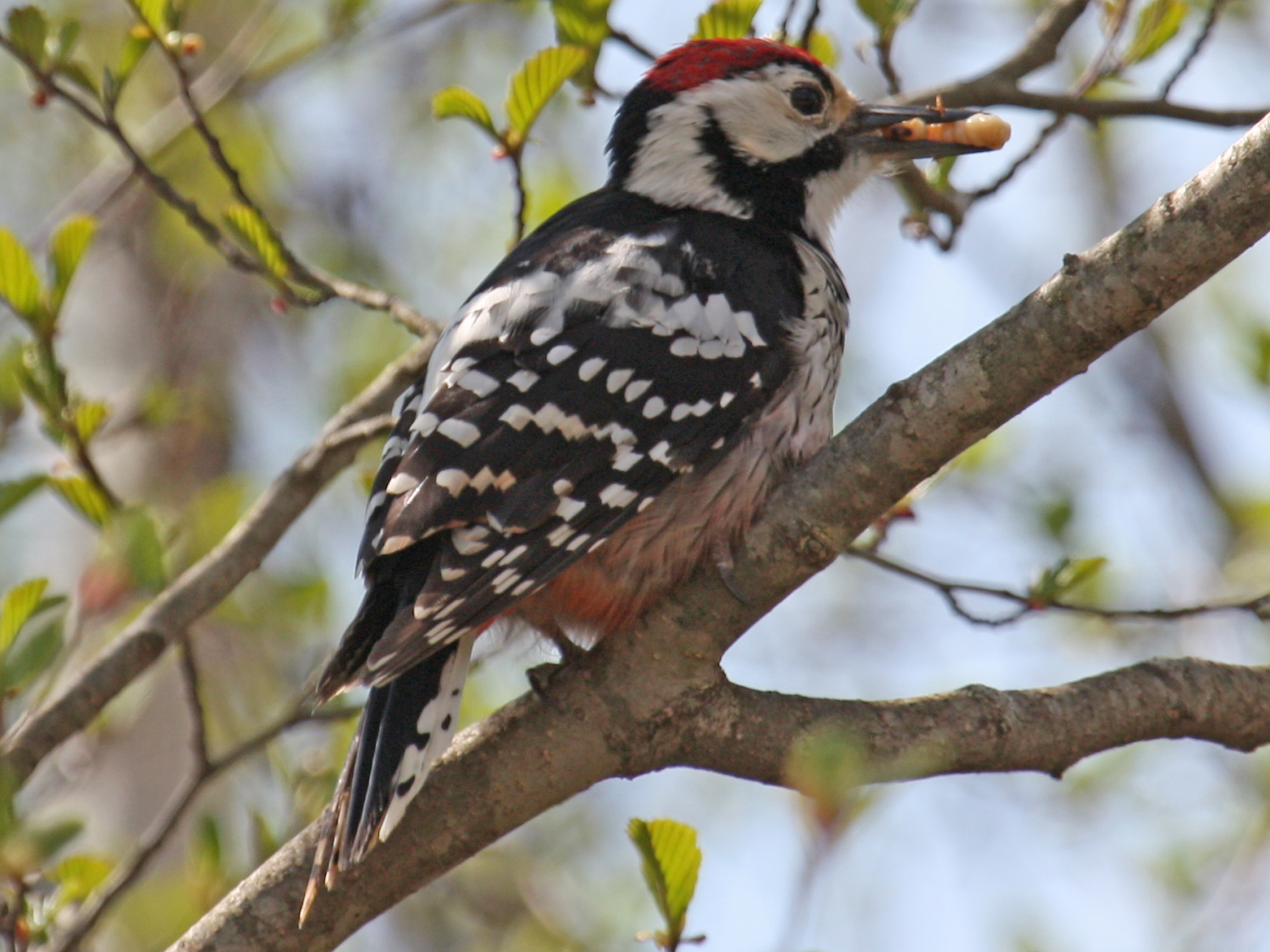 White-backed Woodpecker, Dendrocopos leucotos, Estonia